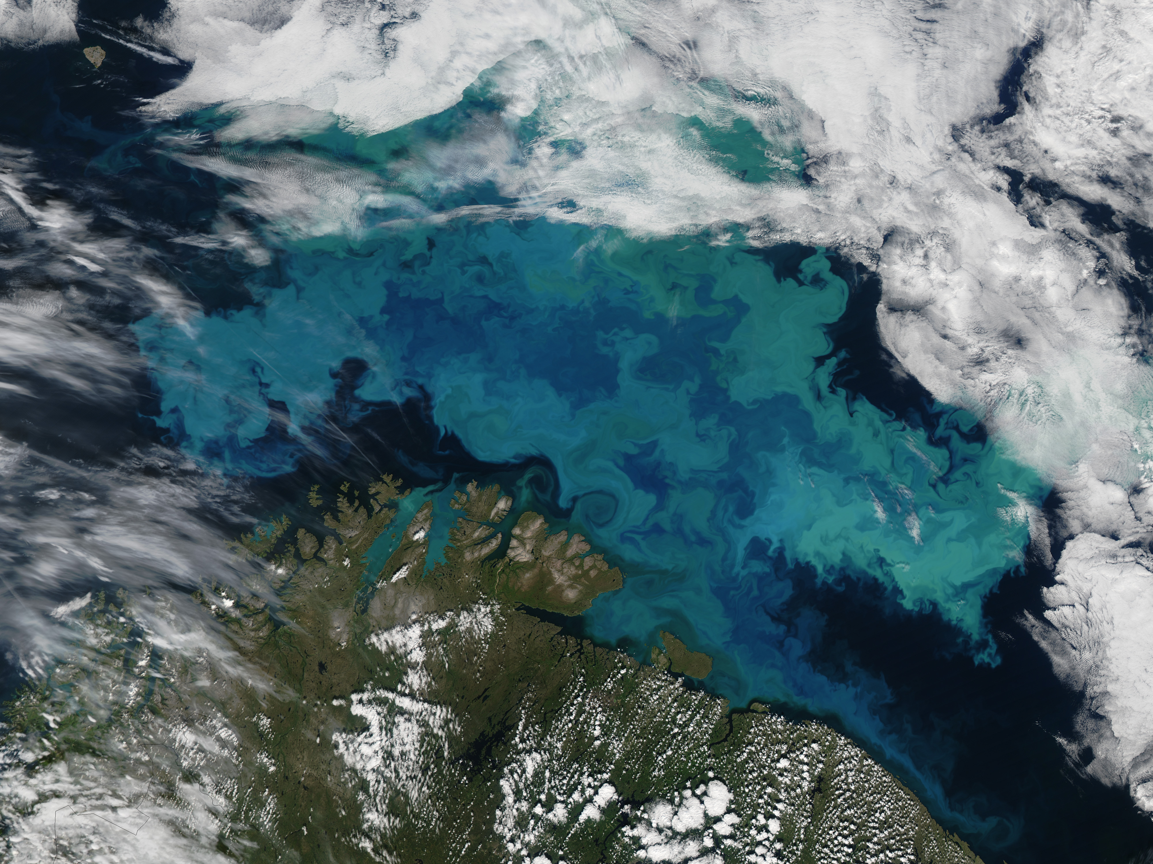 Brilliant shades of blue and green explode across the Barents Sea in this natural-colour image. The color was created by a massive bloom of phytoplankton that are common in the area each August. The clear view is a rare treat since the Barents Sea is cloud-covered roughly 80 percent of the time in summer. In this image, the milky blue color strongly suggests that the bloom contains coccolithophores, microscopic plankton that are plated with white calcium carbonate. When viewed through ocean water, a coccolithophore bloom tends to be bright blue. The species is most likely Emiliana huxleyi, whose blooms tend to be triggered by high light levels during the 24-hour sunlight of Arctic summer. The variations in bloom brightness and color in satellite images is partly related to its depth: E. huxleyi, can grow abundantly as much as 50 meters below the surface. Other colors in the scene may come from sediment or other species of phytoplankton, particularly diatoms. The area in this image is located immediately north of the Scandinavian peninsula.